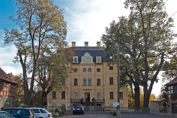 Castle Wiederau, Saxony